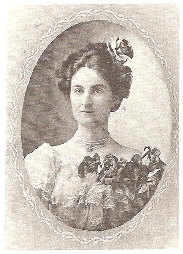 photo of Fanny "Fan" Williams, Colonial Inn Proprietor, Fayetteville, NC c.1930